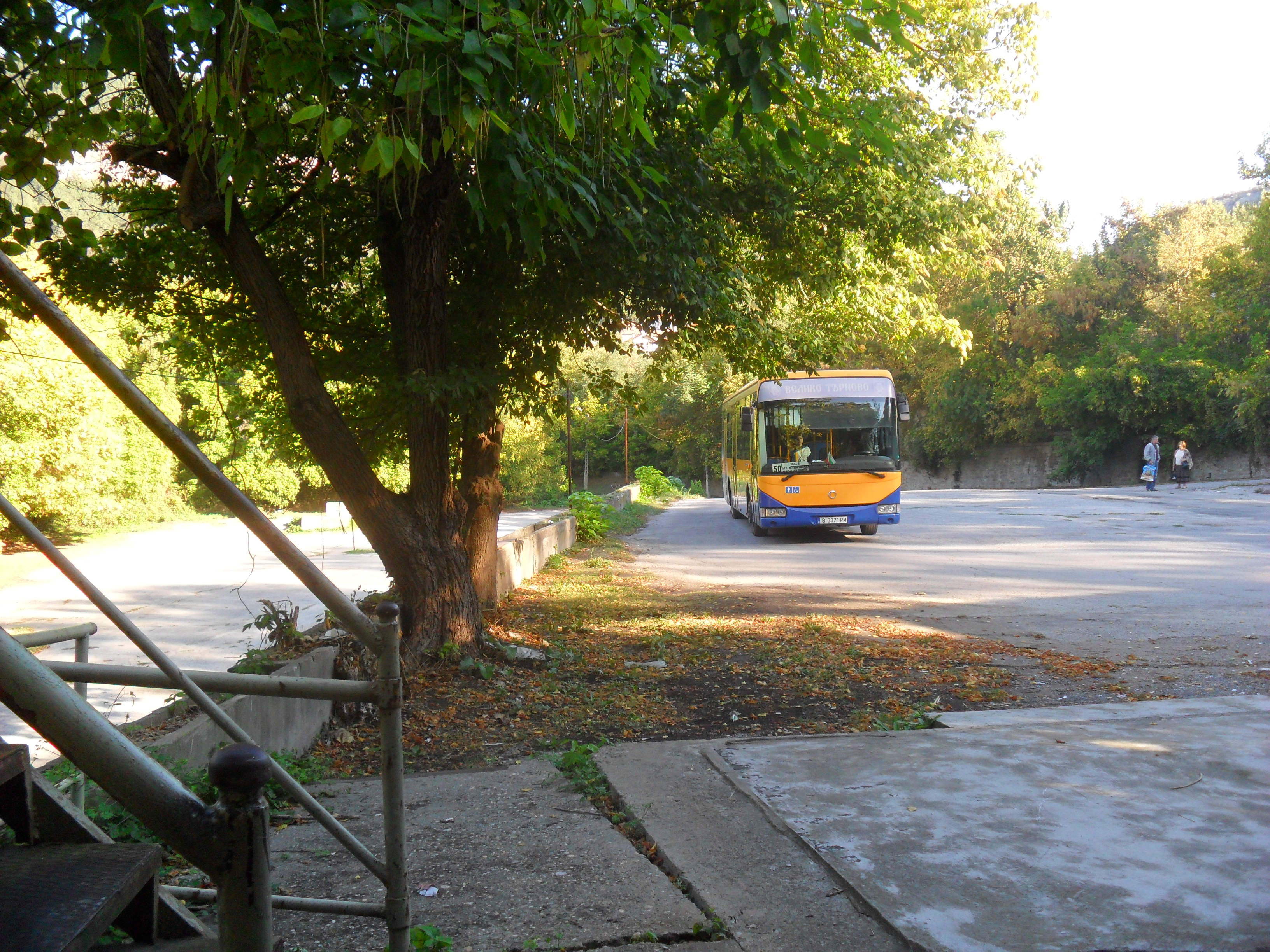 Bus line number 50